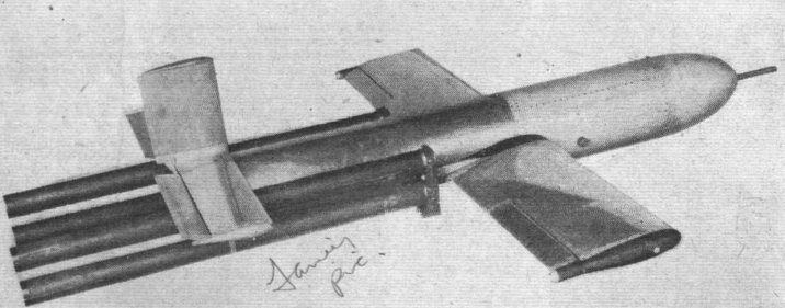 A Fairey "Stooge" surface-to-air missile, developed in the United Kingdom torwards the end of World War II.